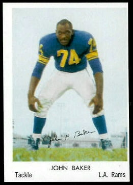 A 1959 promotional image of Los Angeles Rams player John Baker.